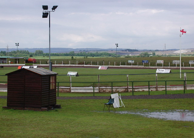 Scunthorpe Speedway Former model airplane club off the east side of Normanby Road, Scunthorpe, converted into a speedway circuit in 2005 as a new home for the Scunthorpe Scorpions. Scunthorpe's earlier speedway club, the Scunthorpe Saints, raced at Quibell Park athletics stadium from 1971 until 1978 when speedway was evicted after much heated debate about the condition of the track. A new purpose built circuit (apparently with almost non-existent facilities) was provided at Ashby Ville until the Saints disbanded in 1985.